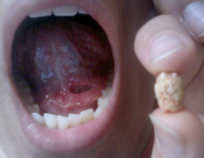 Salivary gland stone (Sialolithiasis) and the operation marks